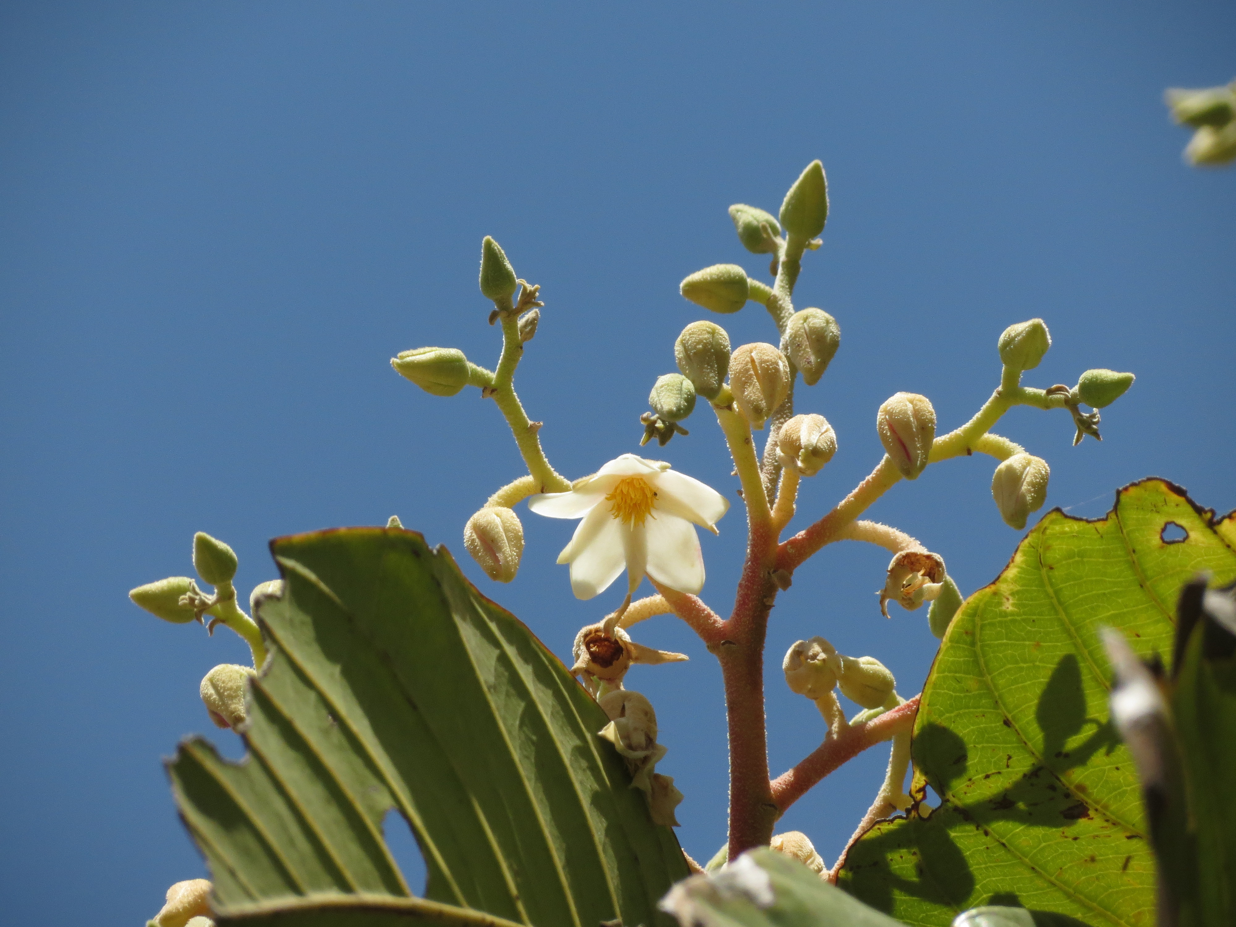 Vateria indica from the Dipterocarpacea family seen in Shivanahalli Bangalore. Critically endangered tree as per IUCN